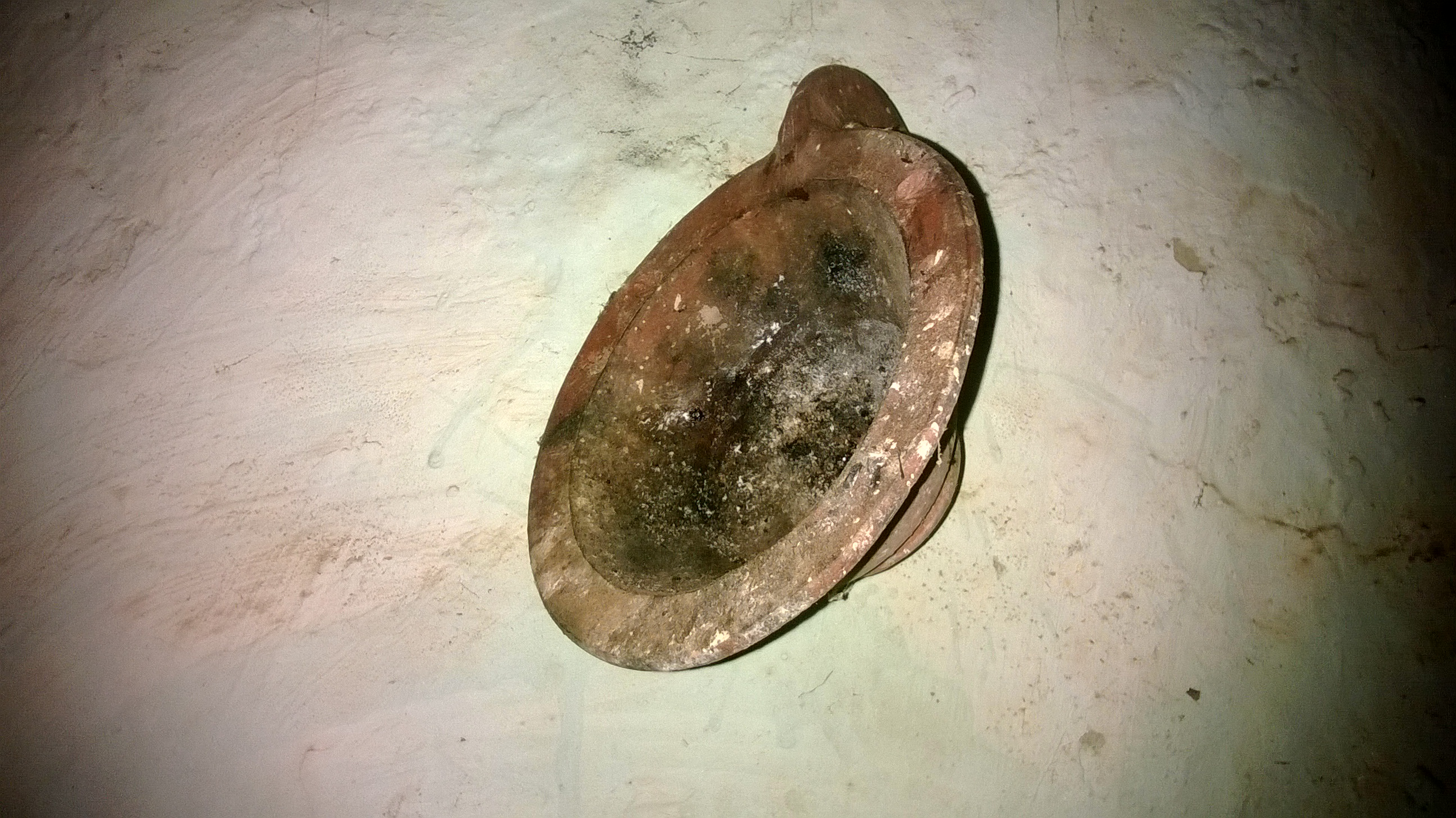 A earthen pot used in Pooja.